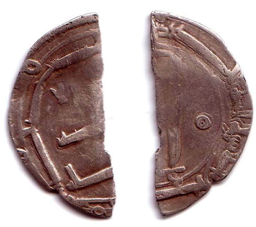 a scanned image of a 'Rezana' (a half of an arabic silver dirham). The original coin was an Abbasid dirham of al-'Abbasiya mint, struck ca. 770-780 CE)